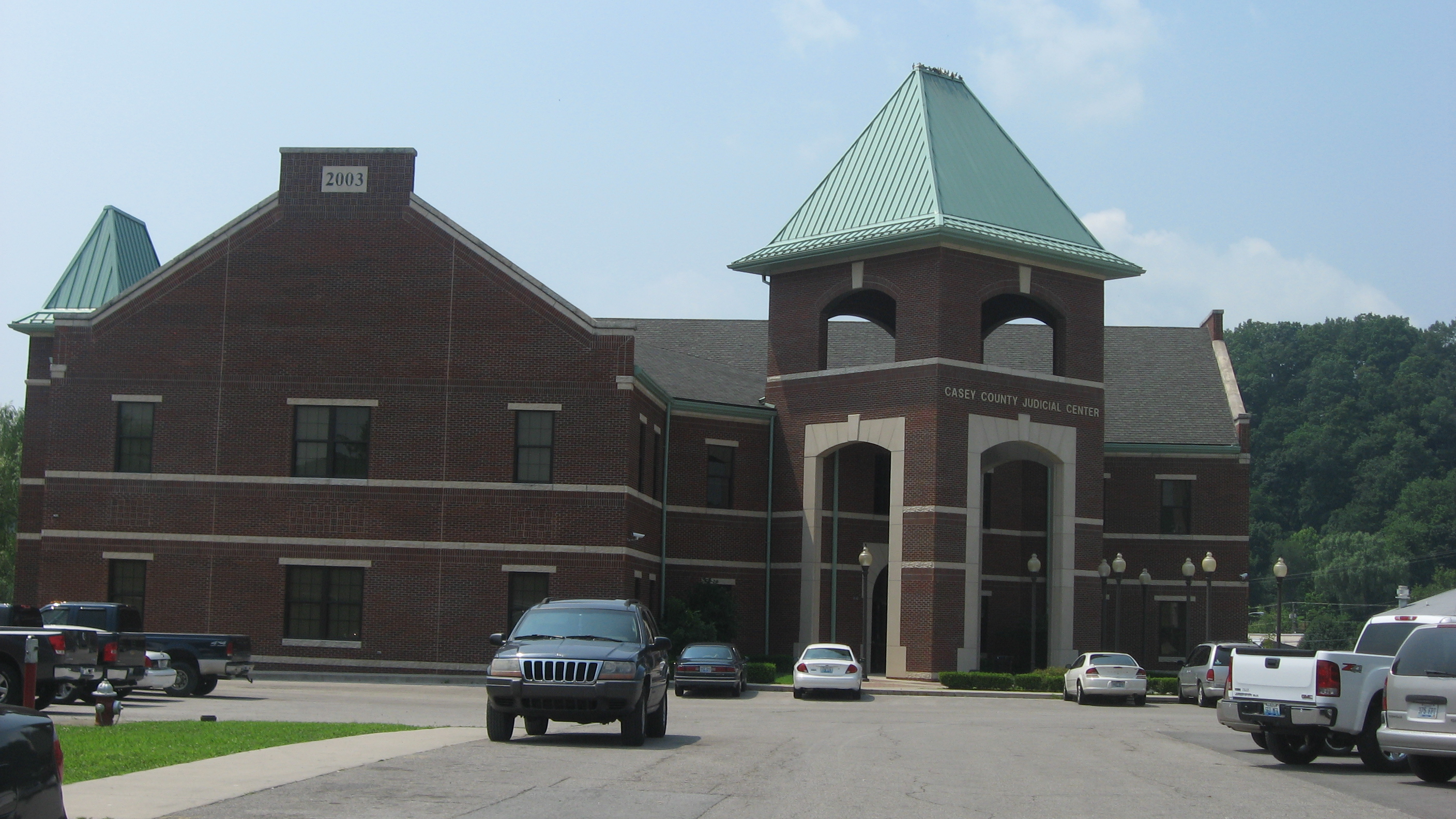 Front of the current Casey County Courthouse, located on Courthouse Square in downtown Liberty, Kentucky, United States.